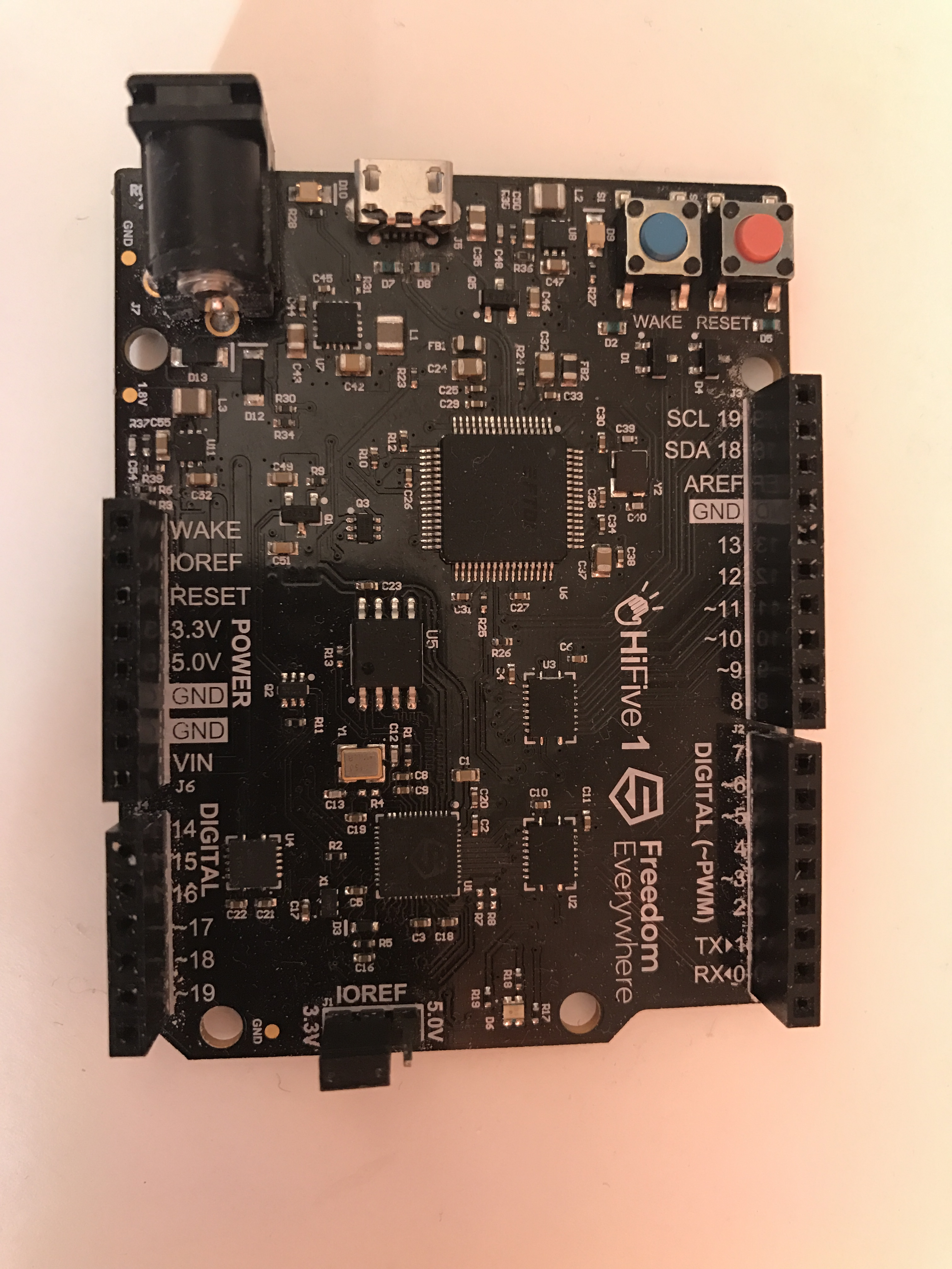 Photo of my Founders Edition HiFive1 development board.